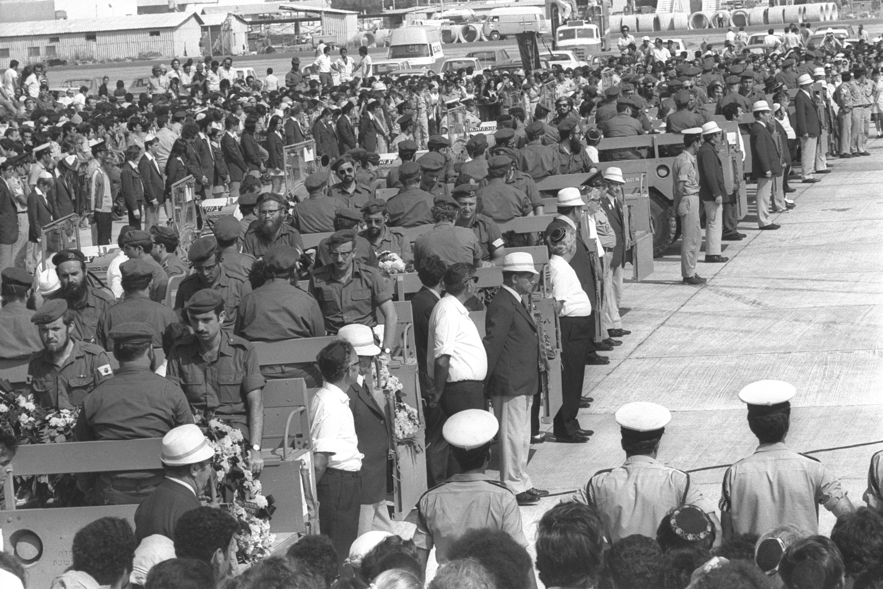 Members of Israeli sports organizations form a Guard of Honor in front of command cars bearing the bodies of victims of the Munich massacre during memorial services at Lod Airport. חברי ארגוני הספורט ישראלים יוצרים משמר כבוד בקדמת הרכבים שנשאו את גופות קורבנות הטבח במינכן במהלך טקס הזיכרון בלוד. Photo: David Eldan (1914–1989) Alternative names דוד אנדי אלדןDescriptionIsraeli photographerDate of birth/death 1914 1989Location of birth/death Austria IsraelAuthority control : Q28732278 VIAF: 308269478 NLI: 001447893 creator QS:P170,Q28732278 , 07/09/1972.